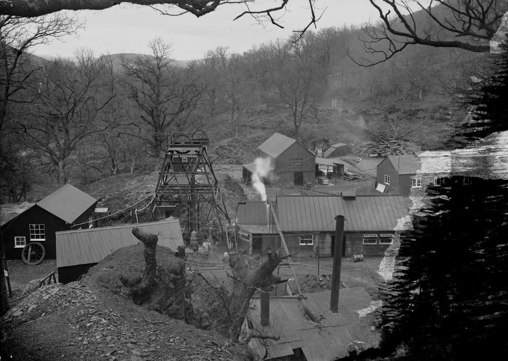 Abstract: Pumsaint gold mine